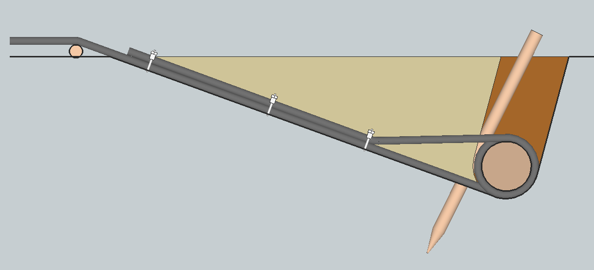 Ground anchor, cut view, according to G. P. J. Feydt "Bergung und Rettung", Bd. 2, S. 96 (Bonn 1971)